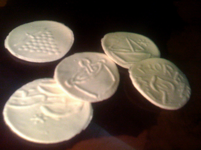 Commercial croxetti, Italian hand-cut and stamped pasta